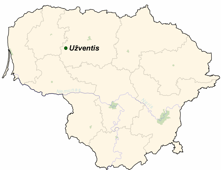 Užventis on the map of Lithuania